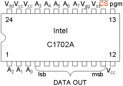 EPROM : The first INTEL EPROM, the 1702 (1971).